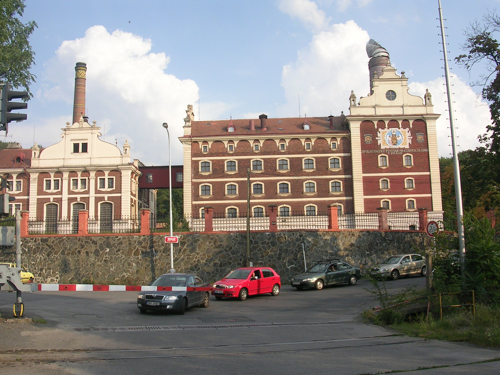 Prague-Braník, Czech Republic. The brewery.